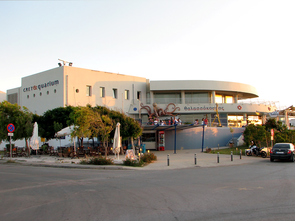 Entrance of Cretaquarium at sunset